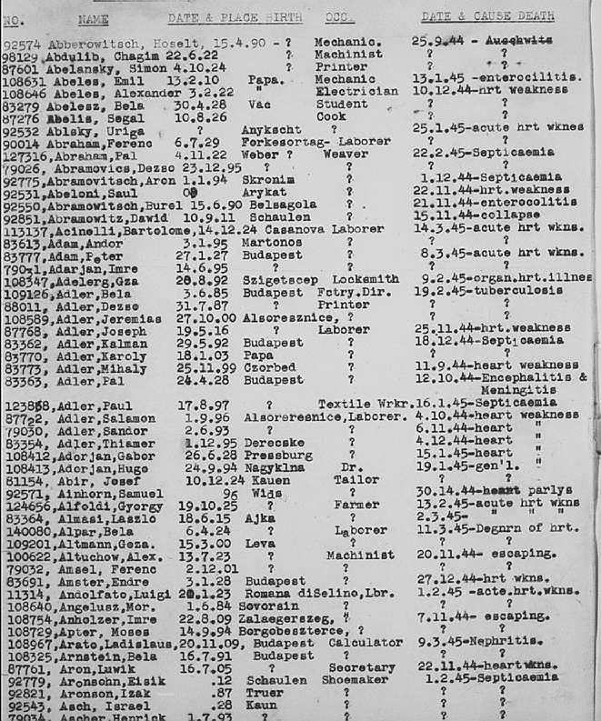 death roll of Muehldorf concentration camp (partly)